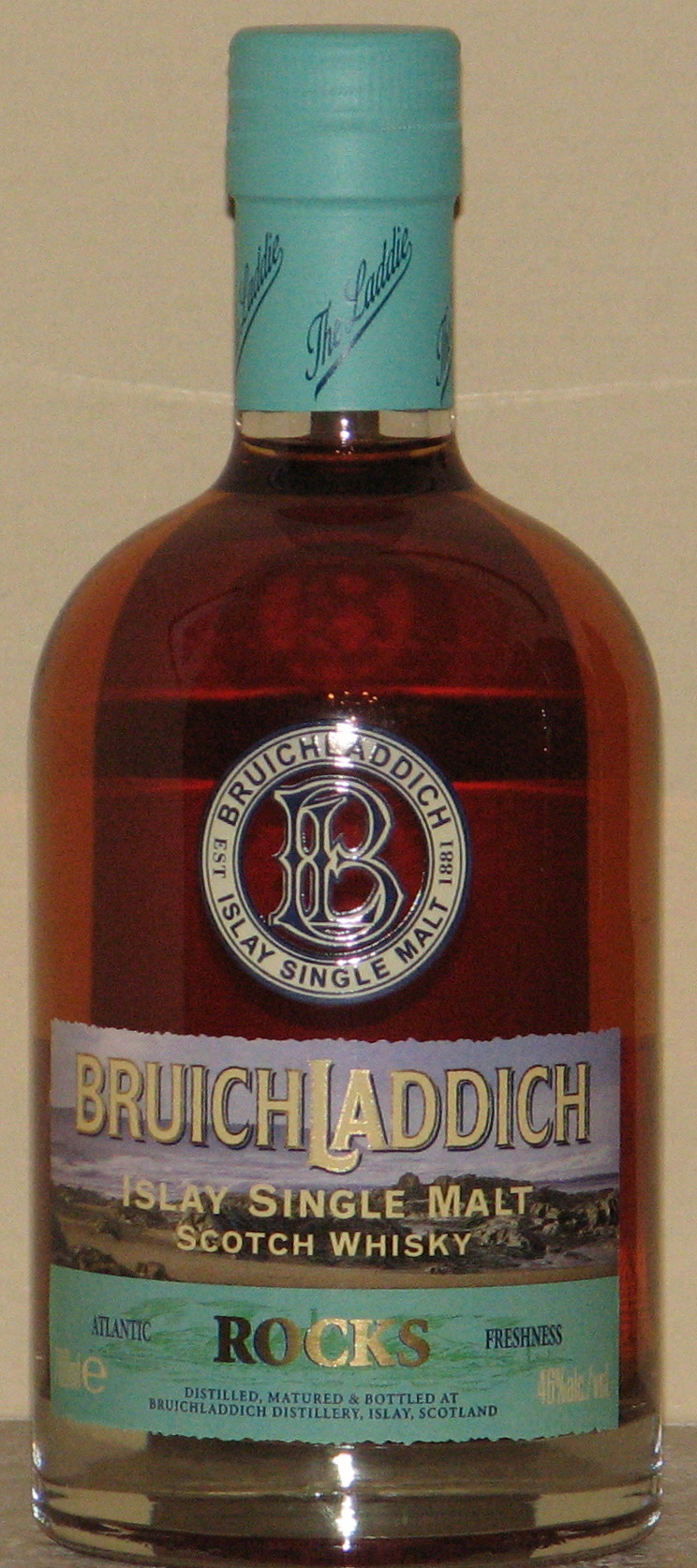 Bruighladdich Islay Single Malt Scotch Whisky Rocks